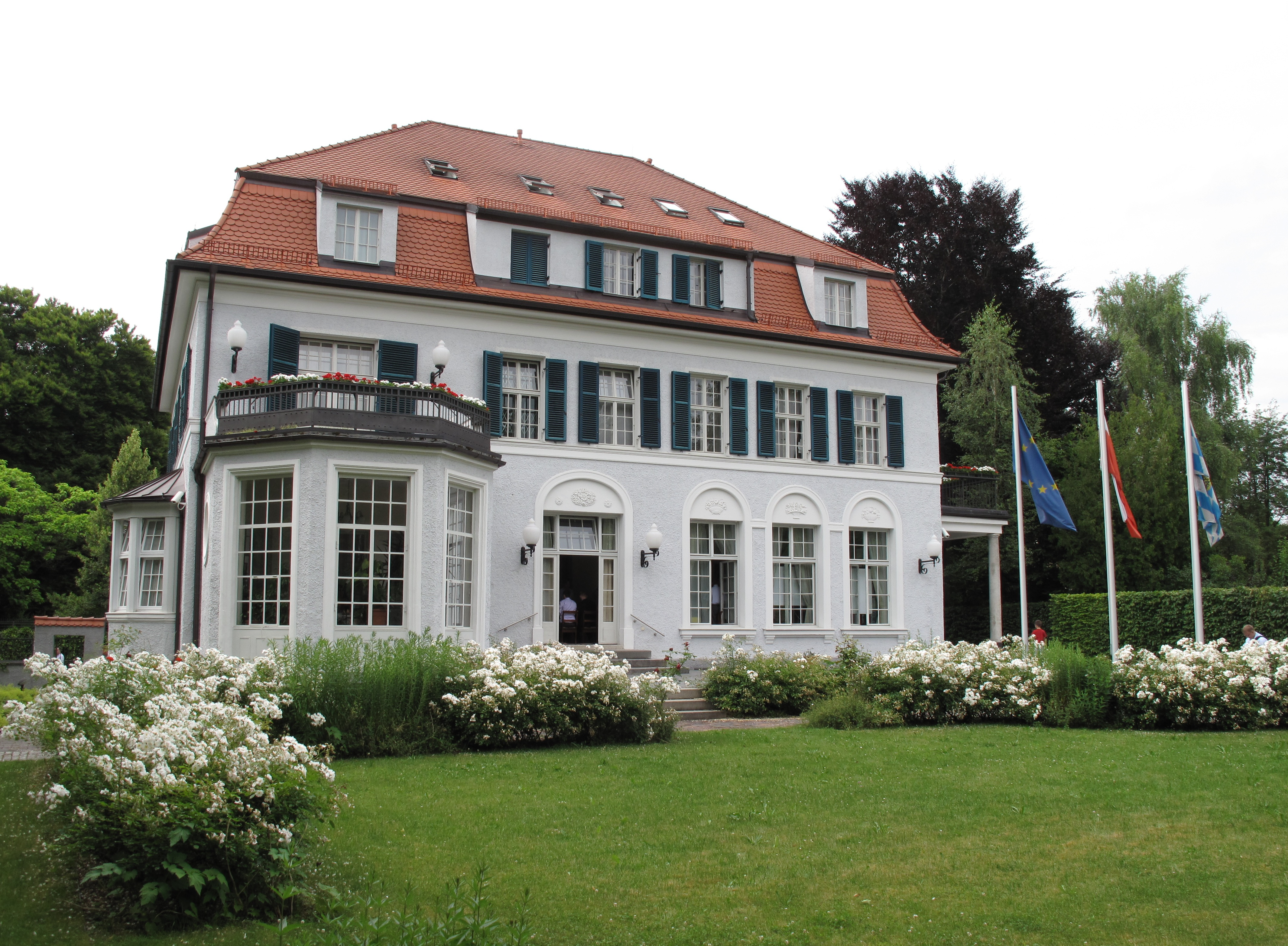 The consulate general of the Republic of Poland in Munich (Bogenhausen), Röntgenstr. 5.